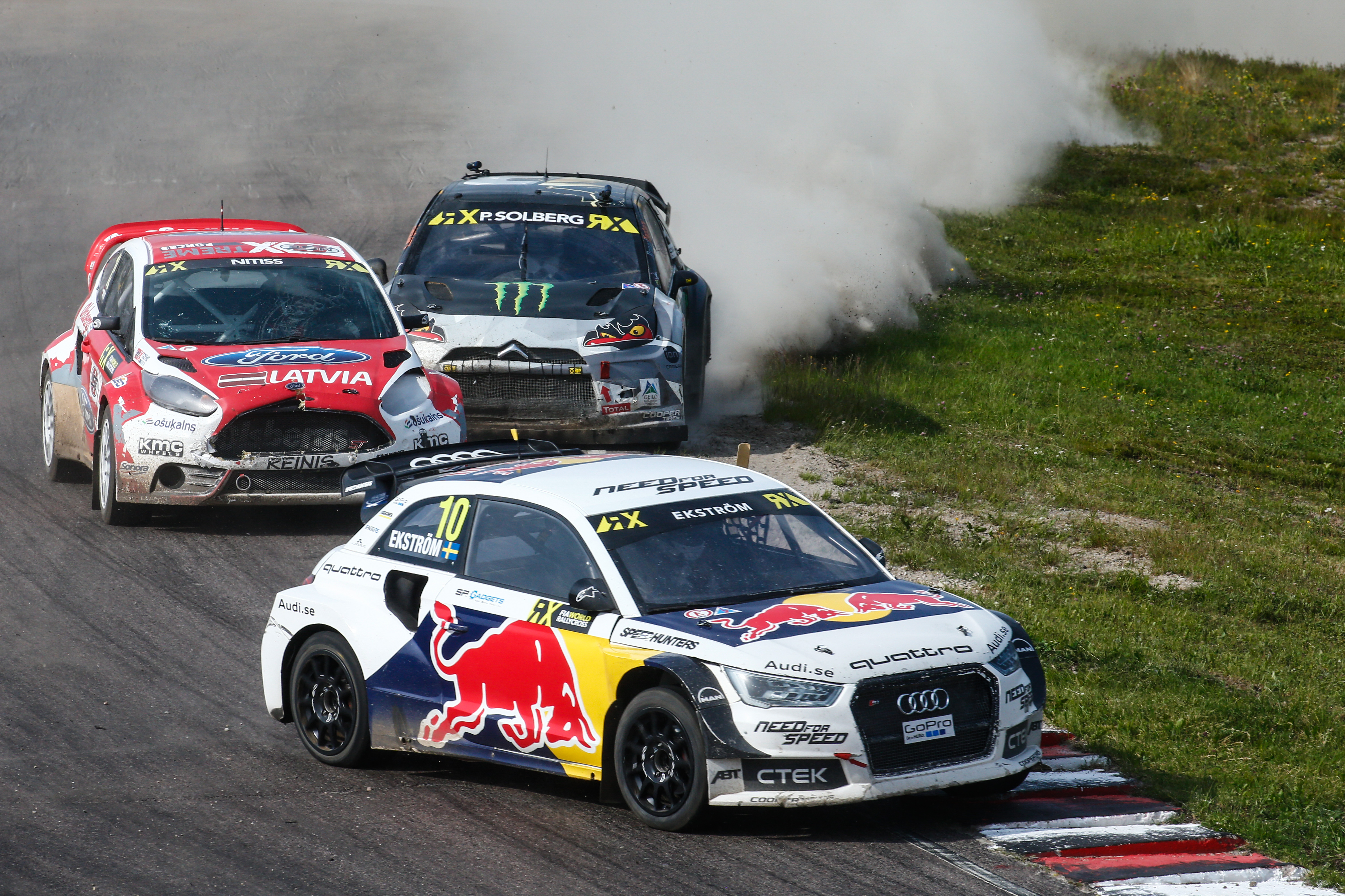 2015 FIA World Rallycross Championship / Round 06, Holjes, Sweden // 3-5 July 2015 // Worldwide Copyright: Colin McMaster/EKS/McKlein